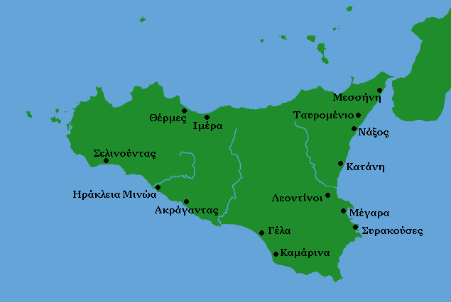 Greek colonies in Sicily